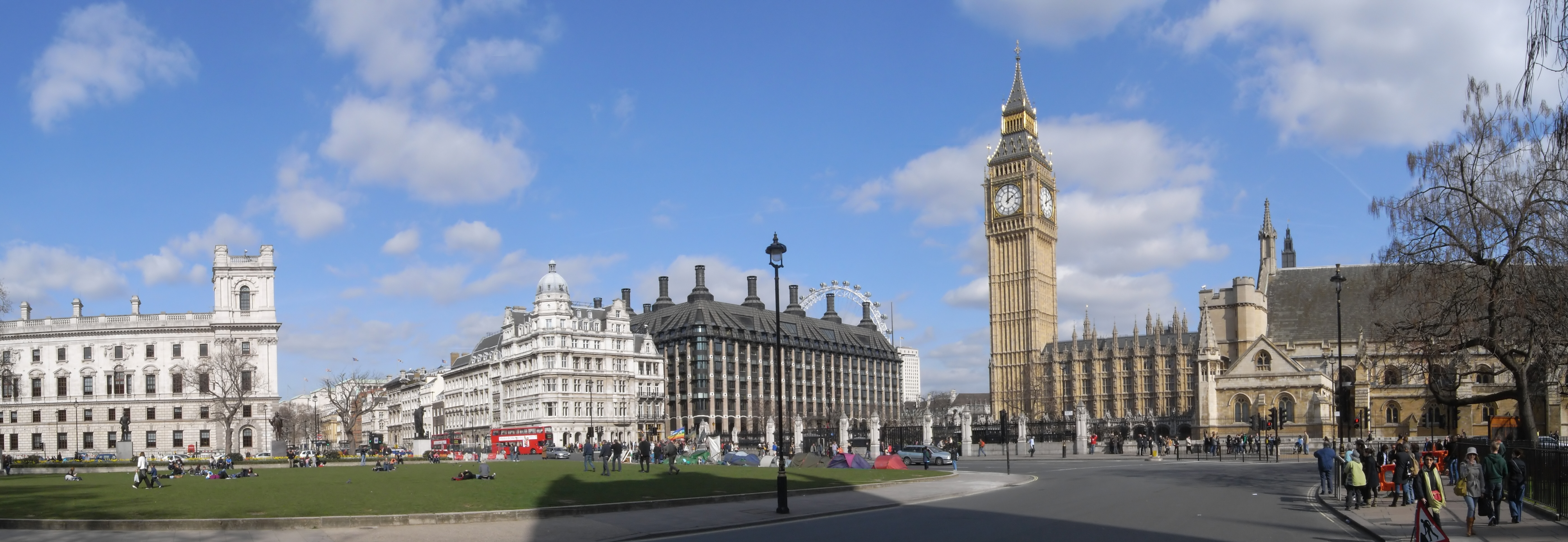 Parliament Square, London. A panorama made from 3 photos taken with Ricoh GX100 camera, stitched with Arcsoft Panorama Maker 3.